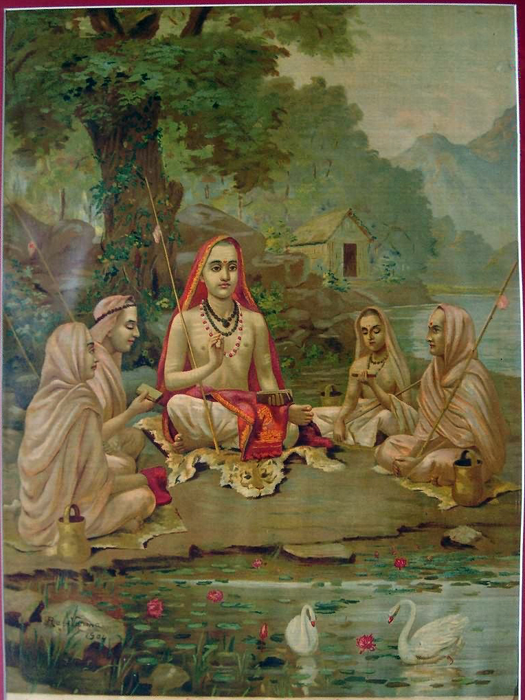 Shankaracharya, in a print from Ravi Varma's studio, early 1900's Source: ebay, Aug. 2009